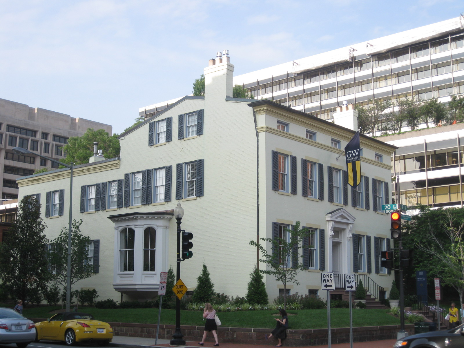 The 1925 F Street Club now serves as the President's Residence at the George Washington University. International Monetary Fund and Department of State Bureau of Consular Affairs buildings are seen on left and right, respectively.